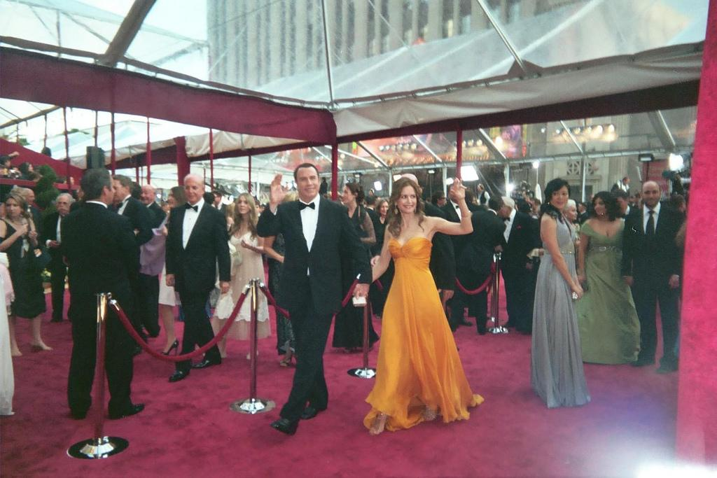 John Travolta and wife, Kelly Preston at 80th Academy Awards